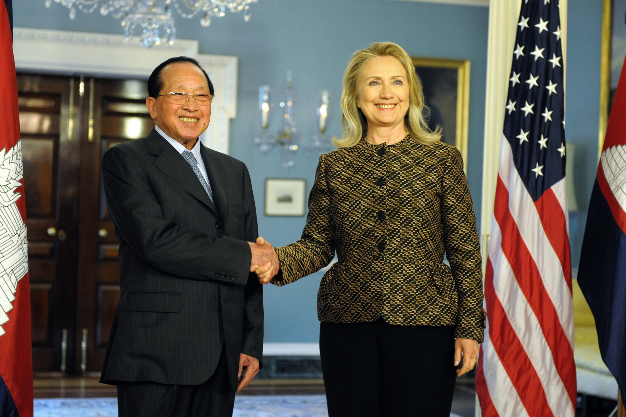 U.S. Secretary of State Hillary Rodham Clinton meets with Deputy Prime Minister and Foreign Minister Hor Namhong of Cambodia at the Department of State in Washington, D.C. on June 12, 2012. [State Department photo/ Public Domain]